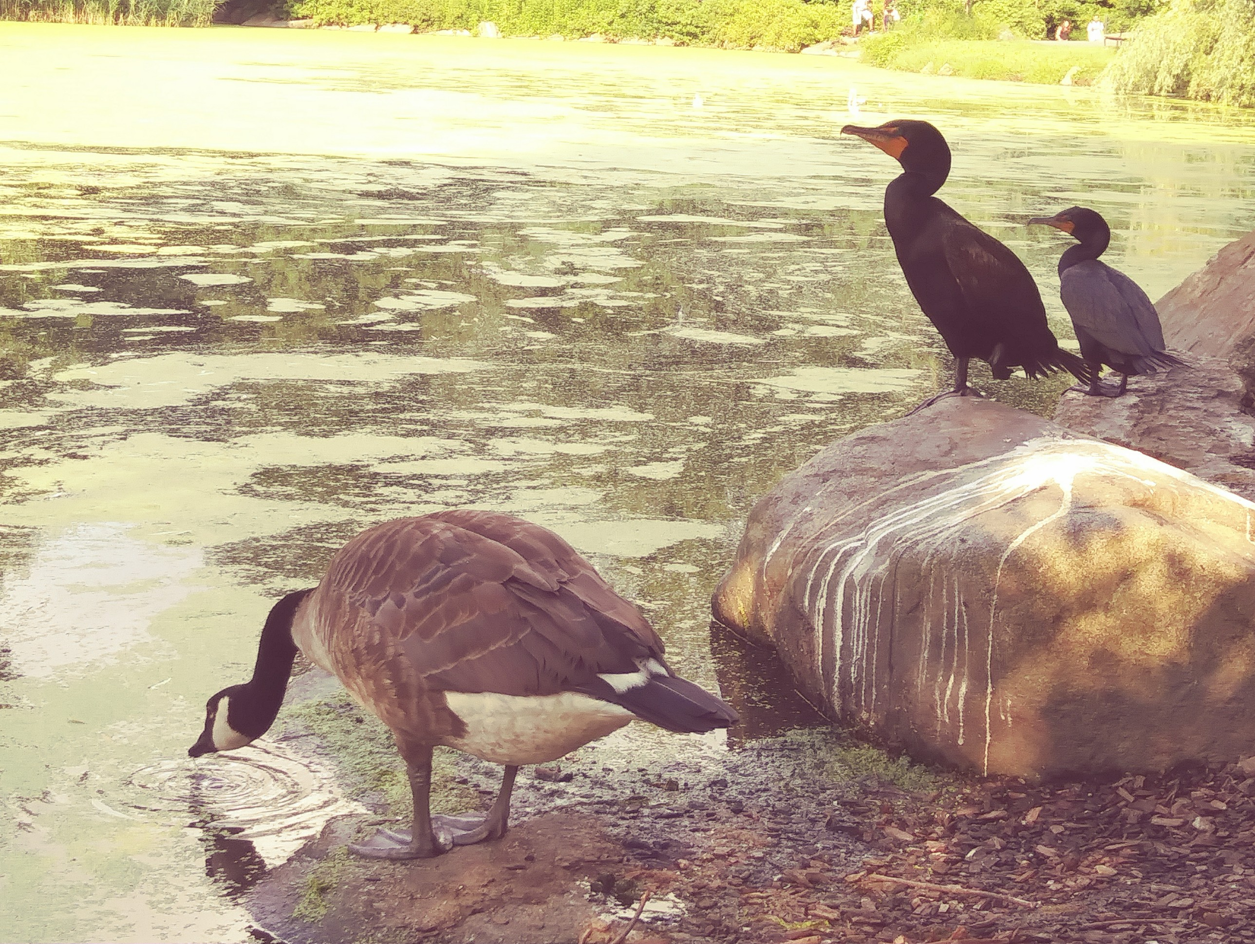 Canada goose and two cormorants at the edge of the Pool in Central Park July 11 2018 at 1:59 PM